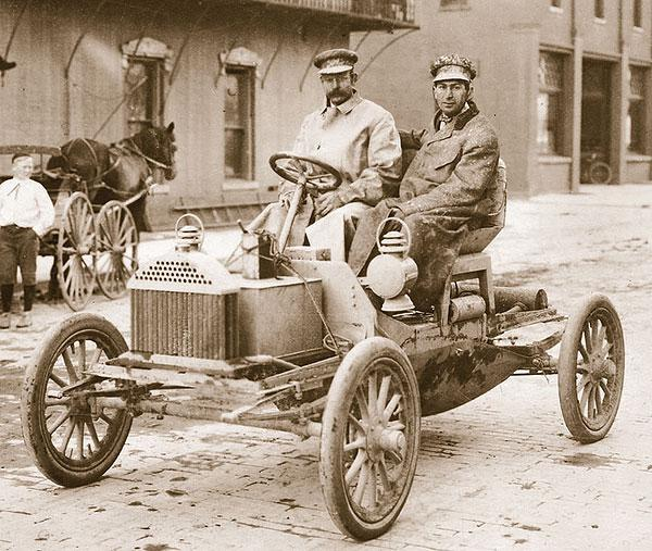 Walter Marr and Tom Buick (David Buick's son) on a prototype 1904 Buick Model B. Walter Marr at the wheel of the first Flint built Buick on a test drive with David Buick's son Thomas. The date is July 12th, 1904, and the location is E. First street near Brush Alley, Flint, Michigan. In the background, the office of the Flint Journal is visible.